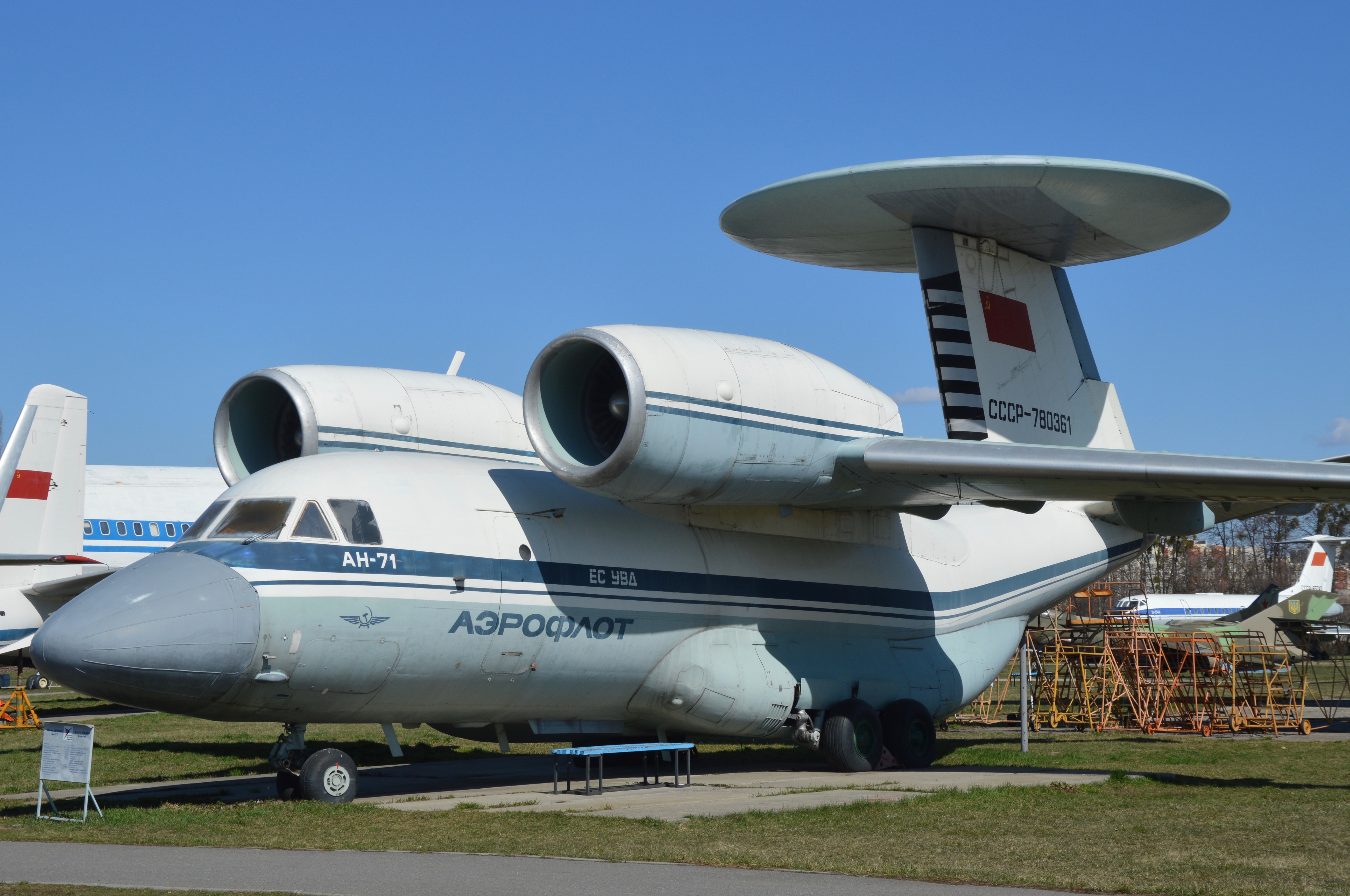 Antonov An-71 AWACS aircraft on display at Ukraine State Aviation Museum in Kiyv